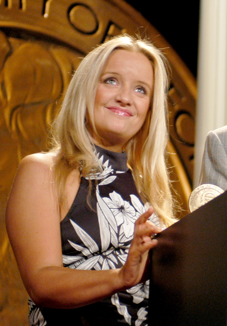 PHOTO CREDIT: ANDERS KRUSBERG / PEABODY AWARDS Lucy Davis and Jon Plowman 63rd Annual Peabody Awards Luncheon Waldorf=Astoria Hotel May 17, 2004